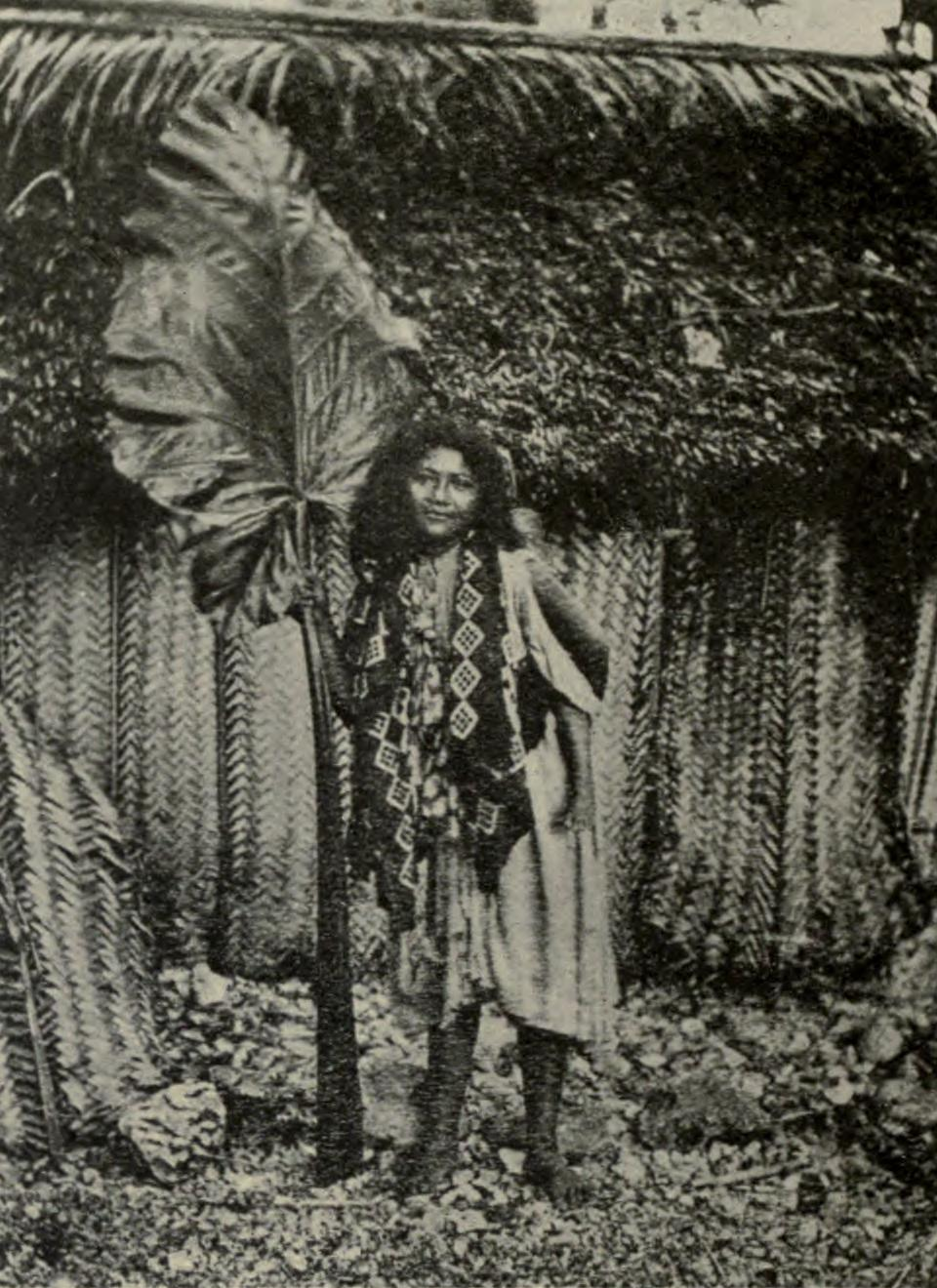 Woven Walls of Niue House, Memoirs Bishop Museum, Vol. II, Fig. 43.